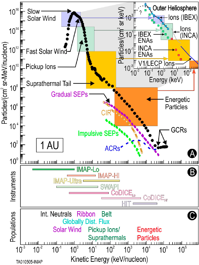 Particle energy spectra for ions and energetic neutral atoms (inset) at 1 AU and the corresponding particle populations and IMAP instrument ranges.